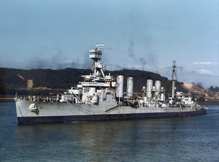 The U.S. Navy light cruiser USS Concord (CL-10) off Balboa, Panama Canal Zone, on 6 January 1943. USS Concord was assigned to the Southeast Pacific Force, escorted convoys, exercised in the Canal Zone, and cruised along the coast of South America and to the islands of the southeast Pacific, serving from time to time as flagship of her force.